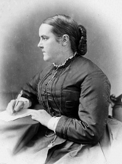 Sophia Jex-Blake (1840-1912) as a young woman